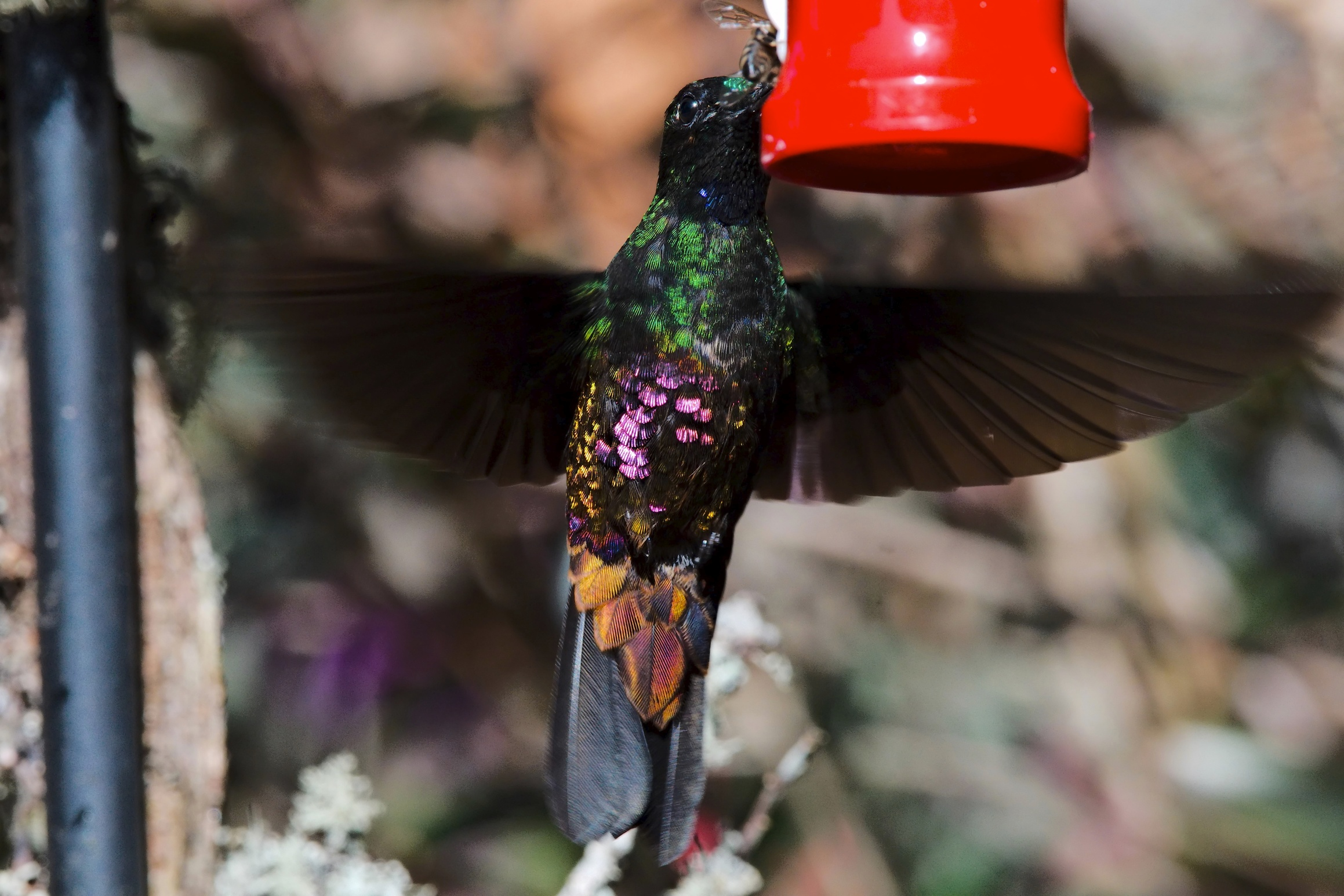 Blue-throated Starfrontlet at La Calera Hummingbird Garden (Observatorio des Colibries)